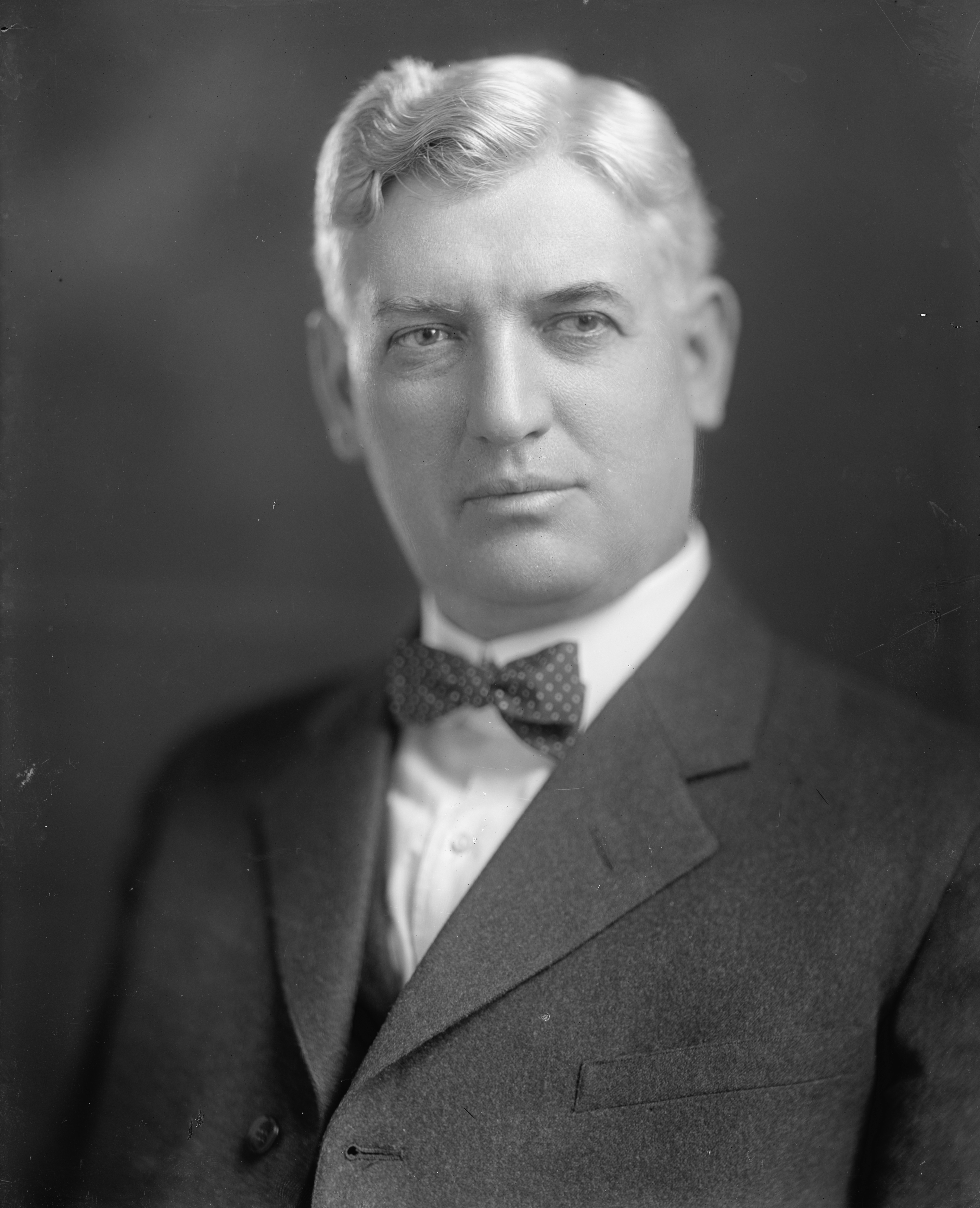 Title: DICKINSON, LESTER J. HONORABLE Abstract/medium: 1 negative : glass ; 8 x 10 in. or smaller